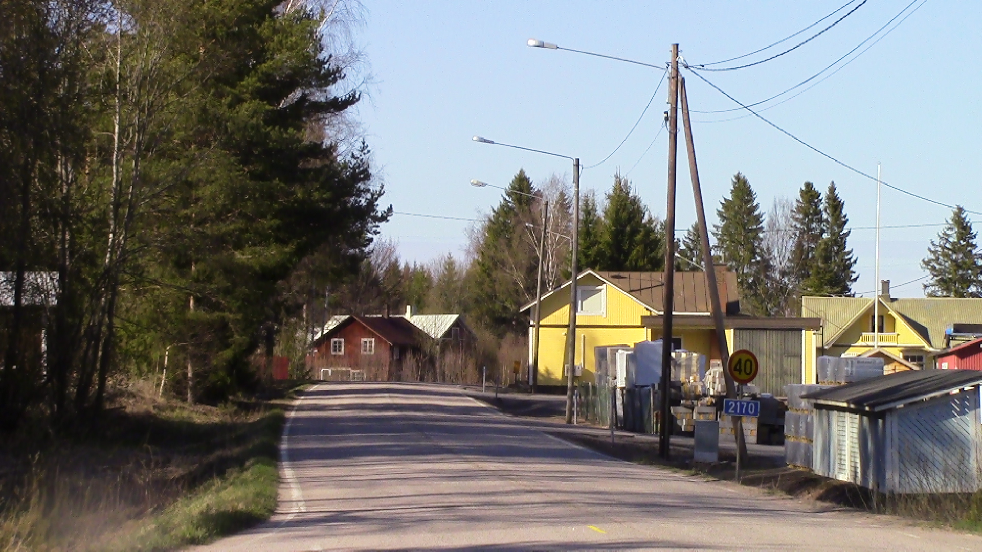 Finnish connecting road 2170 at Hormisto in Nakkila. The road runs from Eurajoki to Viikkala in Nakkila.